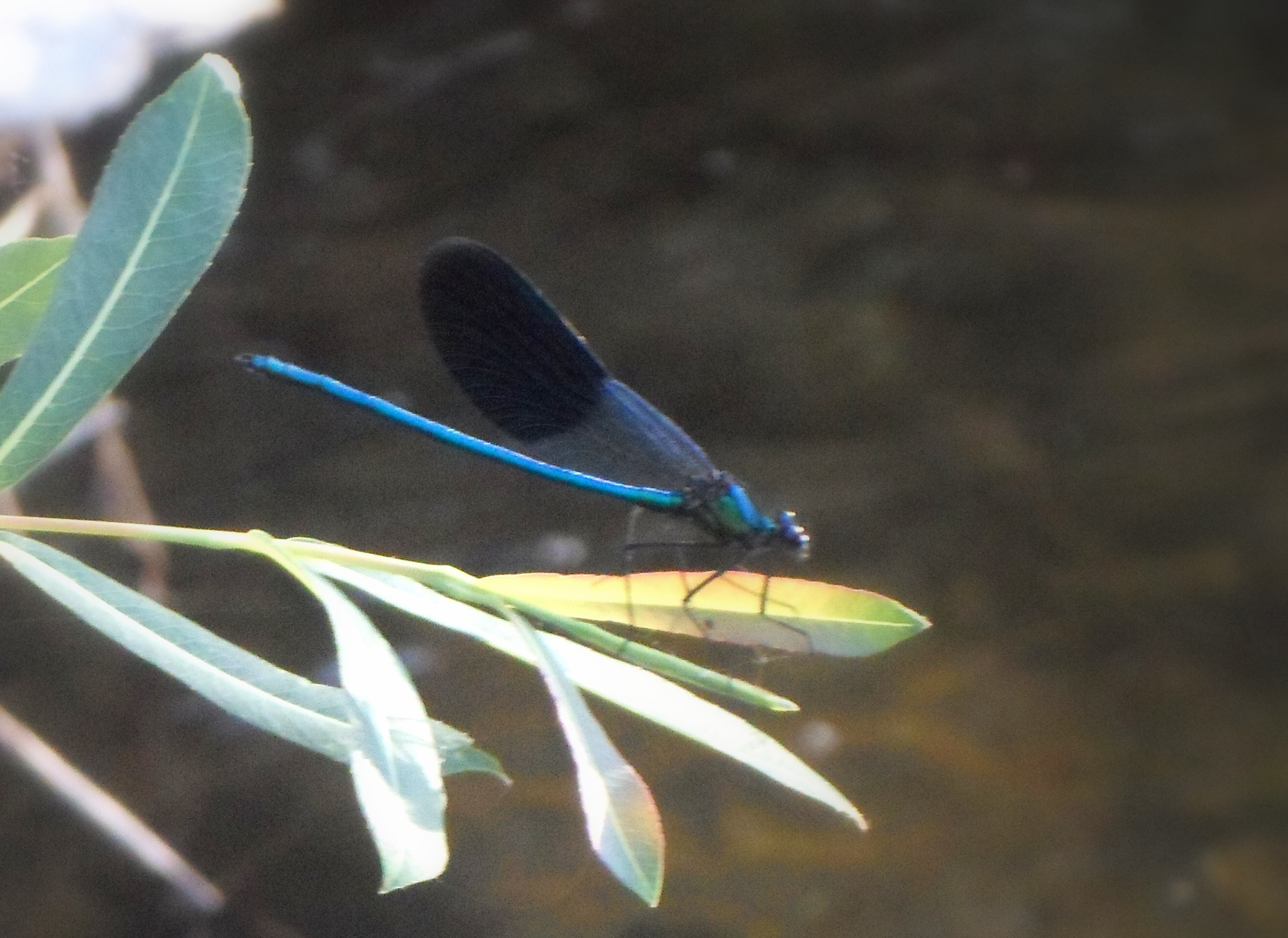 Park of nature Dobrun - Rzav This image was uploaded as part of Trace of Soul 2015.